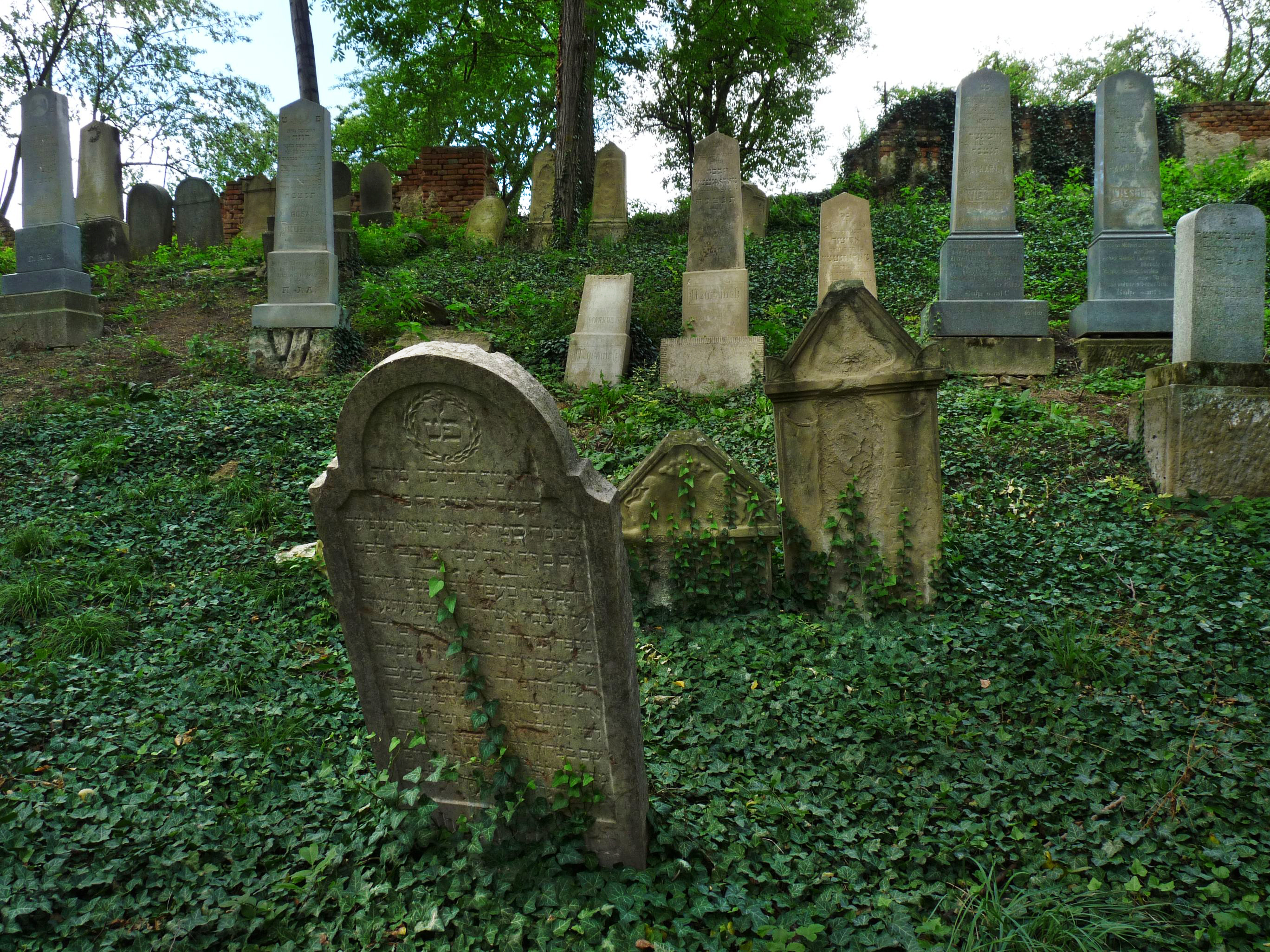 Jewish cemetery in the town of Bučovice, Vyškov District, South Moravian Region, Czech Republic.